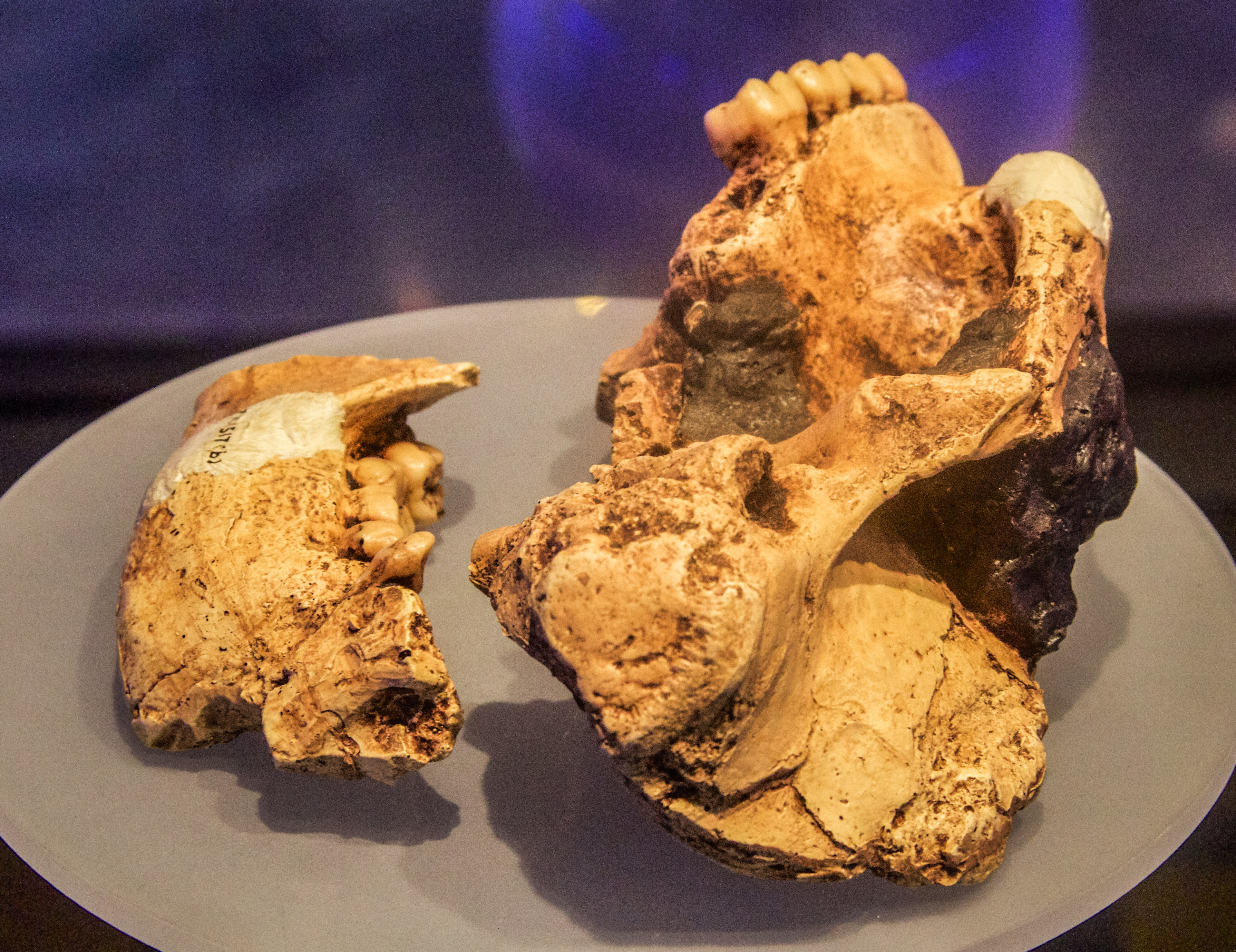 Partial Paranthropus robustus skull from Kromdraai. Partial cranium and mandible.(TM1517). Discovered 1938. at the Sterkfontein caves.